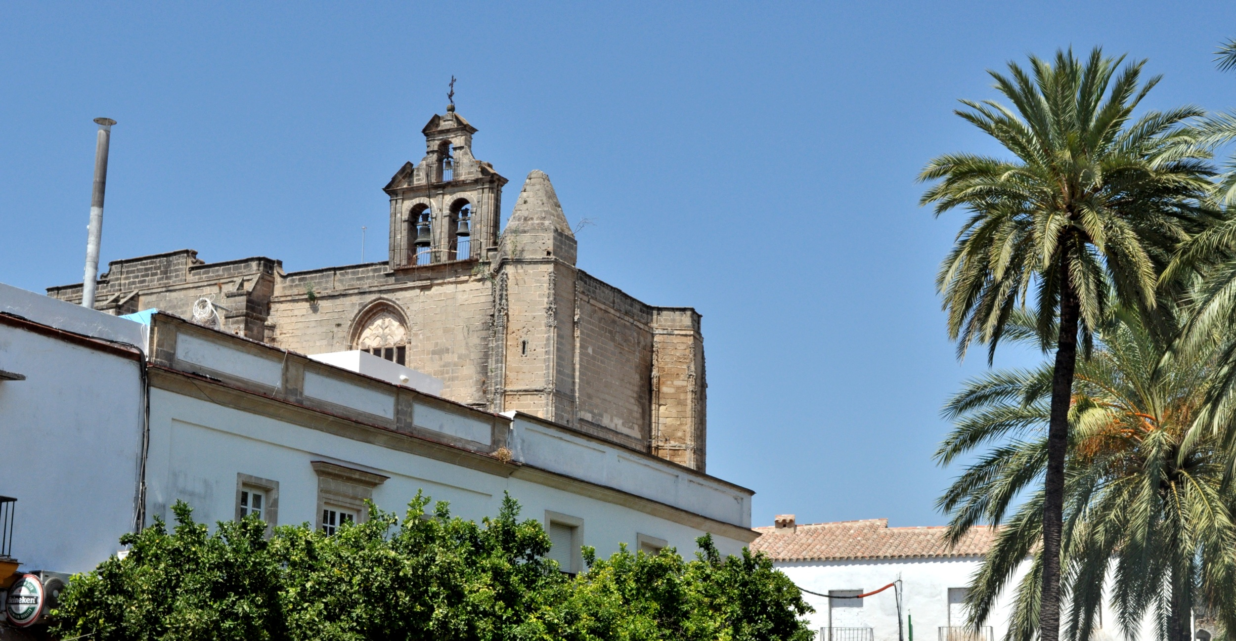 View of Saint Mateo Church from Mercado Square, Jerez